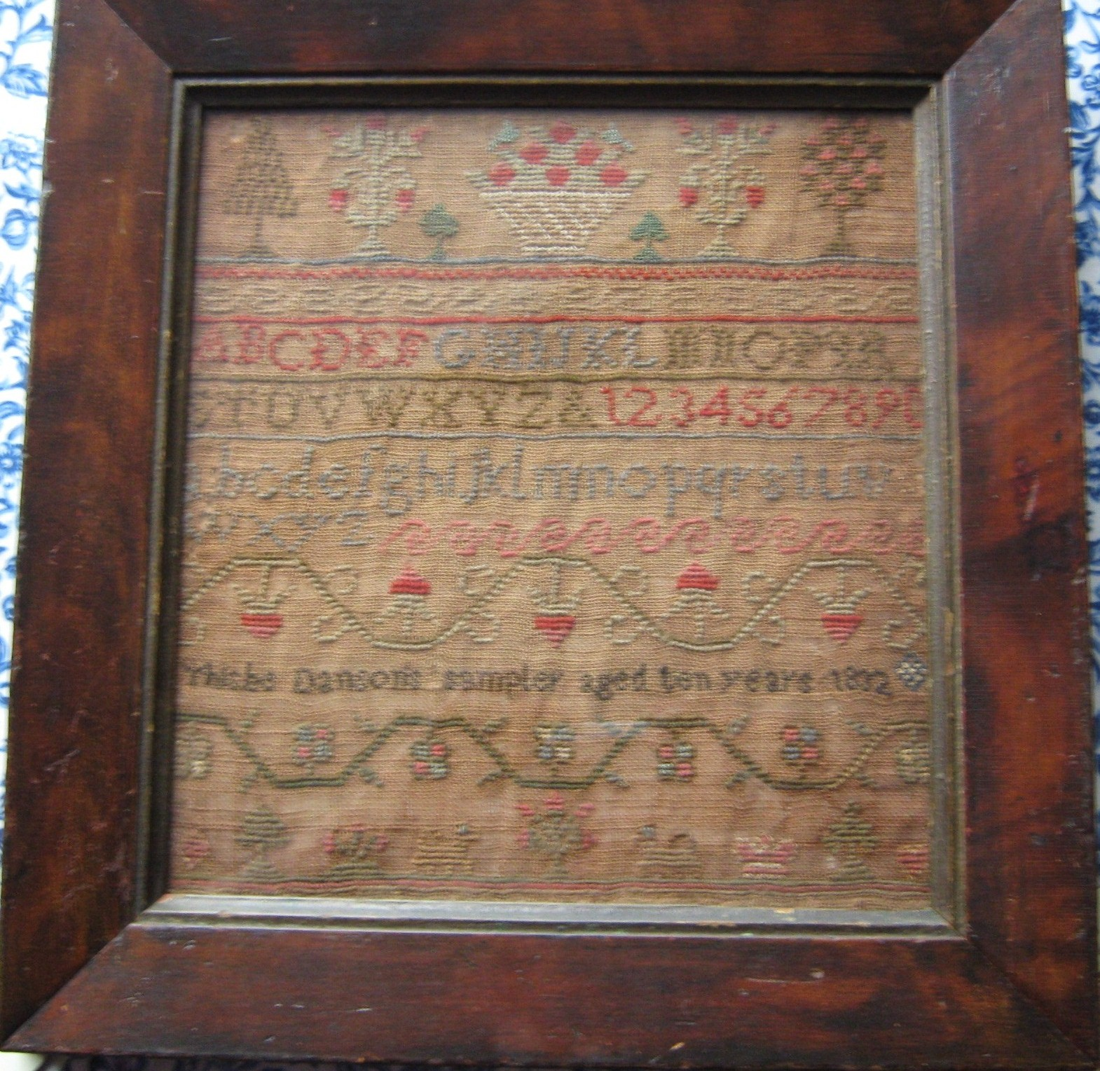 Thisbe Danson was great granddaughter of Lachlan MacQuarrie, the XVI and last Chief of the Clan MacQuarrie. This sampler is owned by a direct descendant of Thisbe Danson - The Rev John-Paul Sanderson. Other information NO